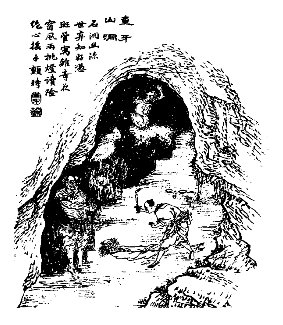 19th-century illustration of a scene from the short story "The Caves of Mount Chaya" collected in Strange Tales from a Chinese Studio (1740).